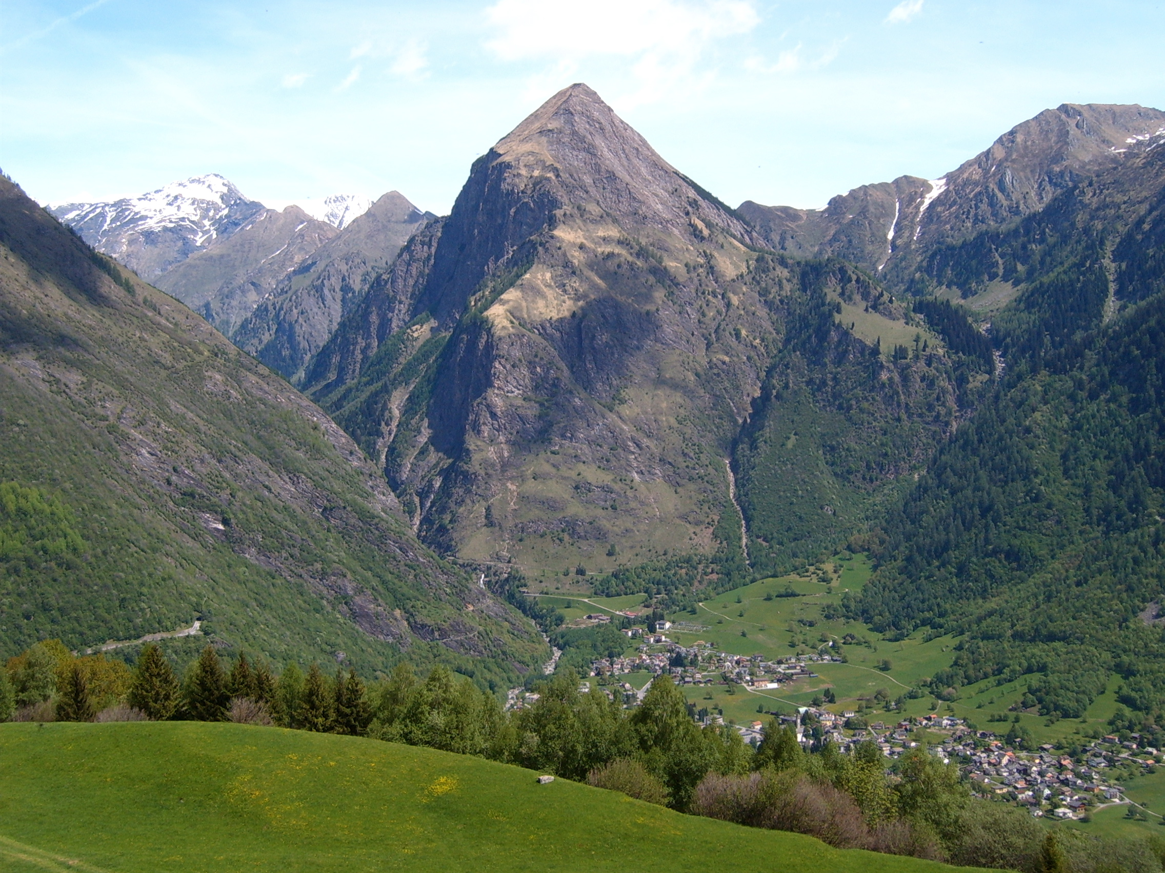 Olivone at the foot of Sosto (2221 m), Valle di Blenio, Ticino (Switzerland)